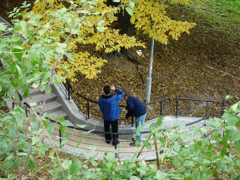 Serpentyny Steps, Sanok